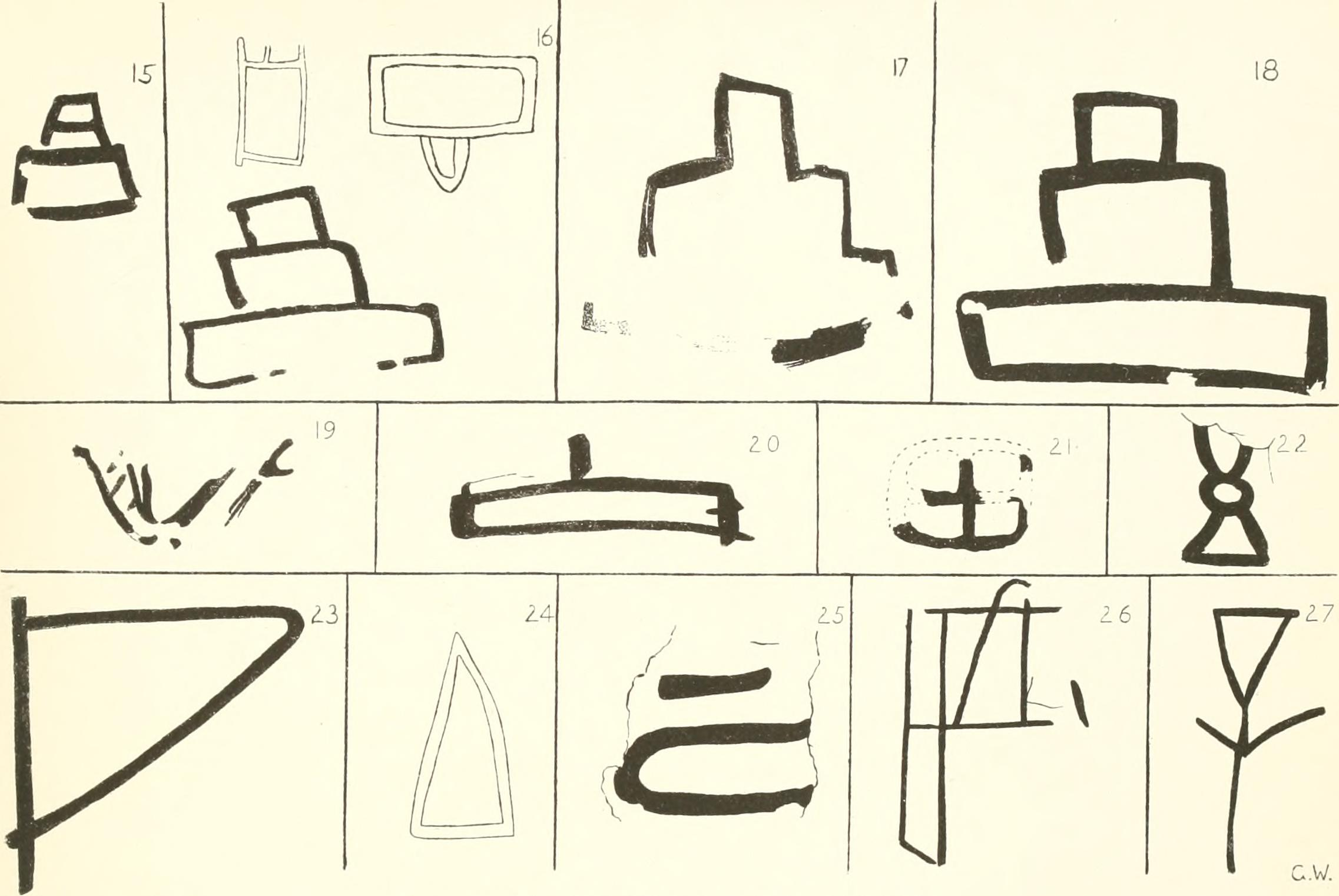 Title: Meydum and Memphis (III) Year: 1910 (1910s) Authors: Petrie, W. M. Flinders (William Matthew Flinders), Sir, 1853-1942 British School of Archaeology in Egypt Egyptian Research Account Wainwright, G. A. (Gerald Averay) Mackay, Ernest John Henry, 1880-1943 Subjects: Egypt -- Antiquities Excavations (Archaeology) -- Egypt Memphis (Extinct city) Meydum (Egypt) Memphis (Extinct city) Publisher: London : School of Archaeology in Egypt, University College : B. Quaritch Text Appearing Before Image: 1:6 MEYDUM. PYRAMID QUARRY MARKS. VI. Text Appearing After Image: MEMPHIS. PALACE QUARRY MARKS. iH-iiV, 29 Mo^ JD